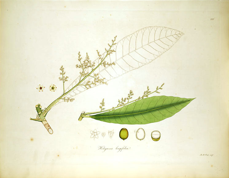 Illustration of Holigarna longifolia 282 from Plants of the coast of Coromandel